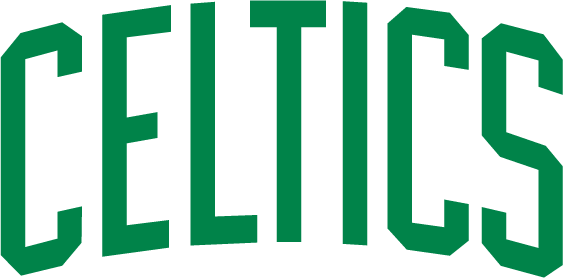 Wordmark logo of the Boston Celtics NBA basketball team